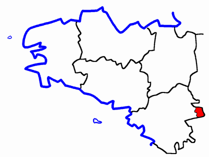 Description: Map for localisazion of cantons of Pays-de-Loire, region in France Source: made by Hervé Tigier in april 2005 from another large map (published in 1990)